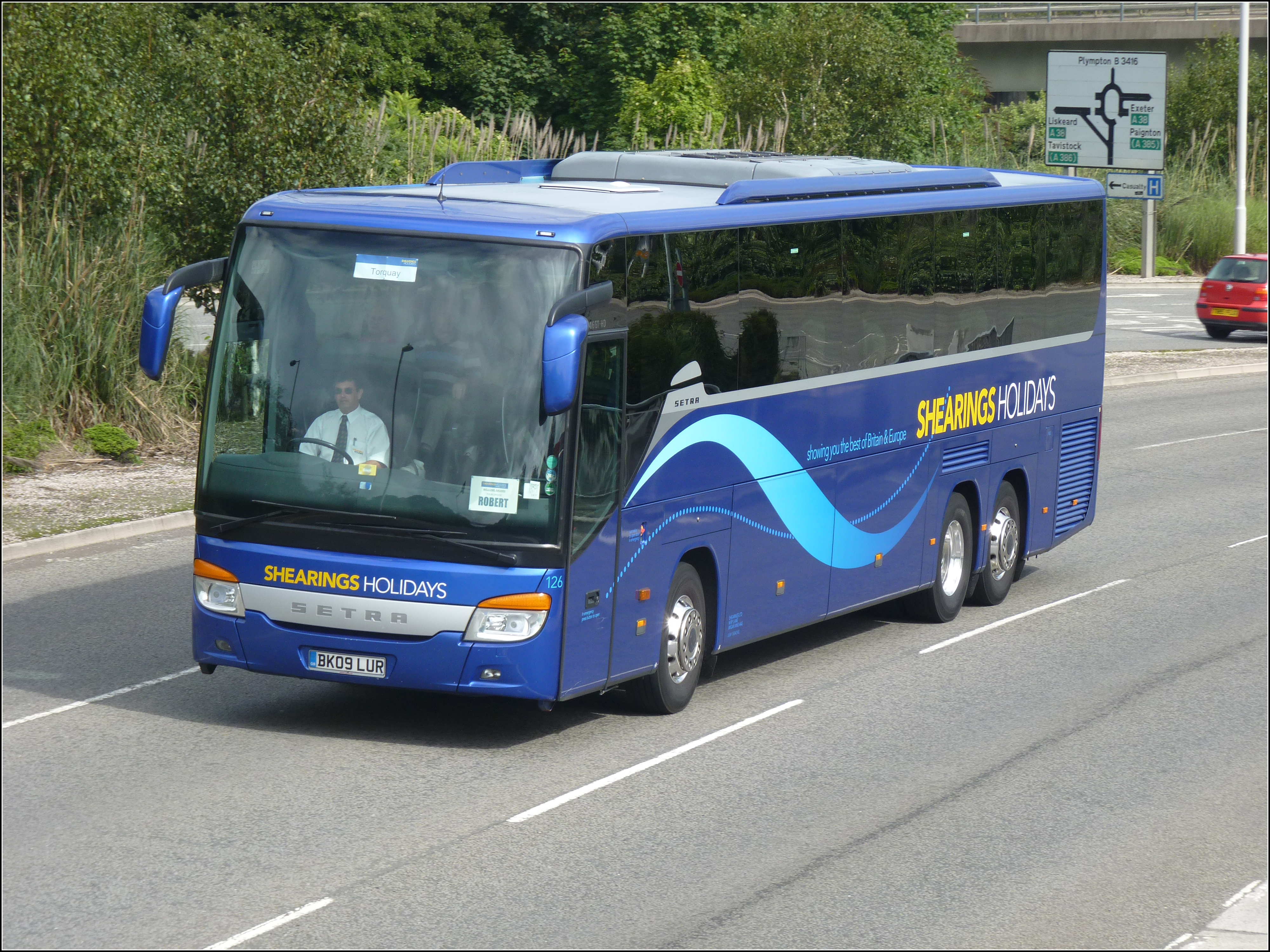 Marsh Mills 22 August 2011